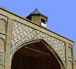 Soltani Mosque of Borujerd, Iran